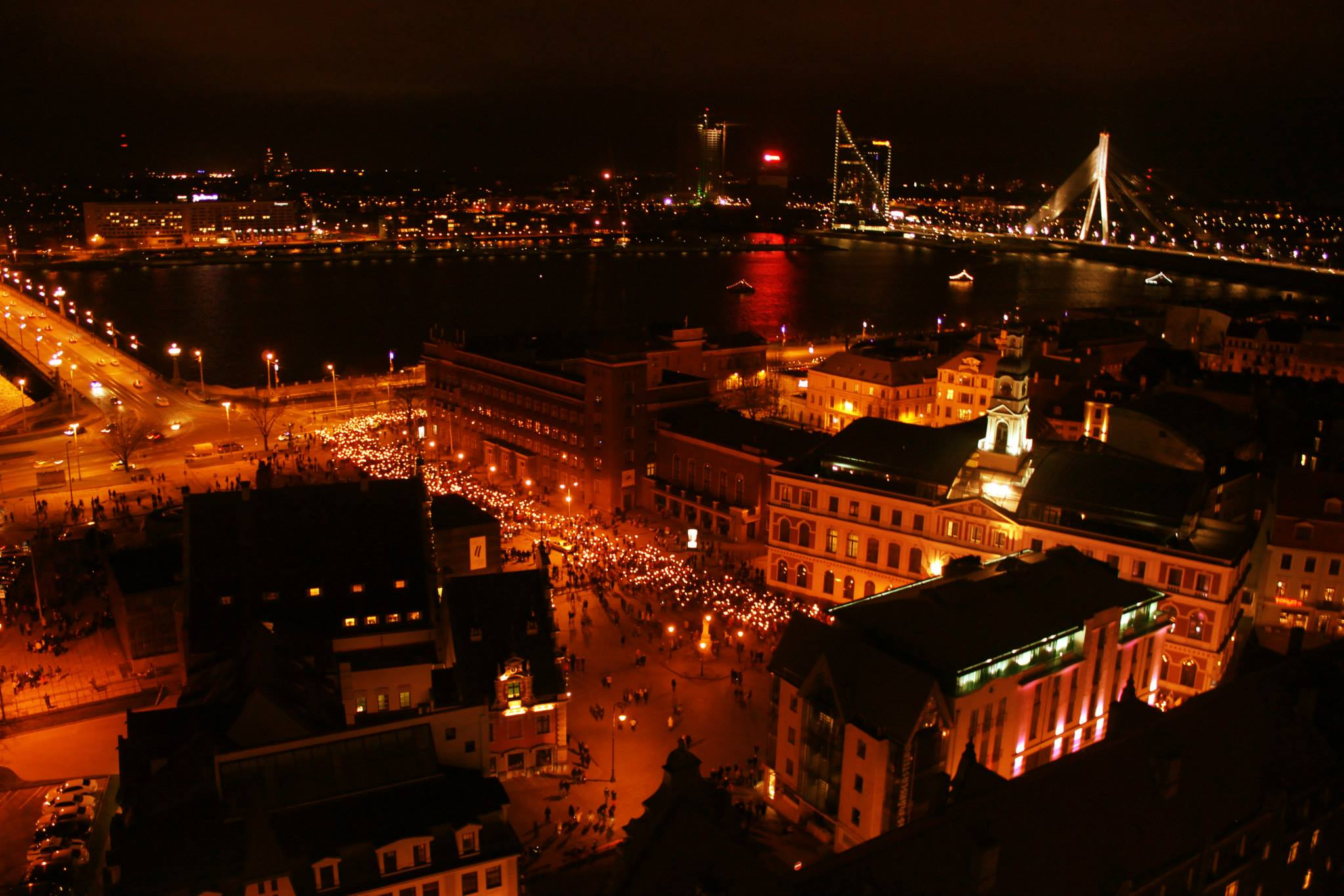 18th November Torchlight procession 2013 from the heights of St Peter’s Church in Riga, LatviaLatviešu: 2013. gada 18. novembra lāpu gājiens no Pēterbaznīcas augstumiem